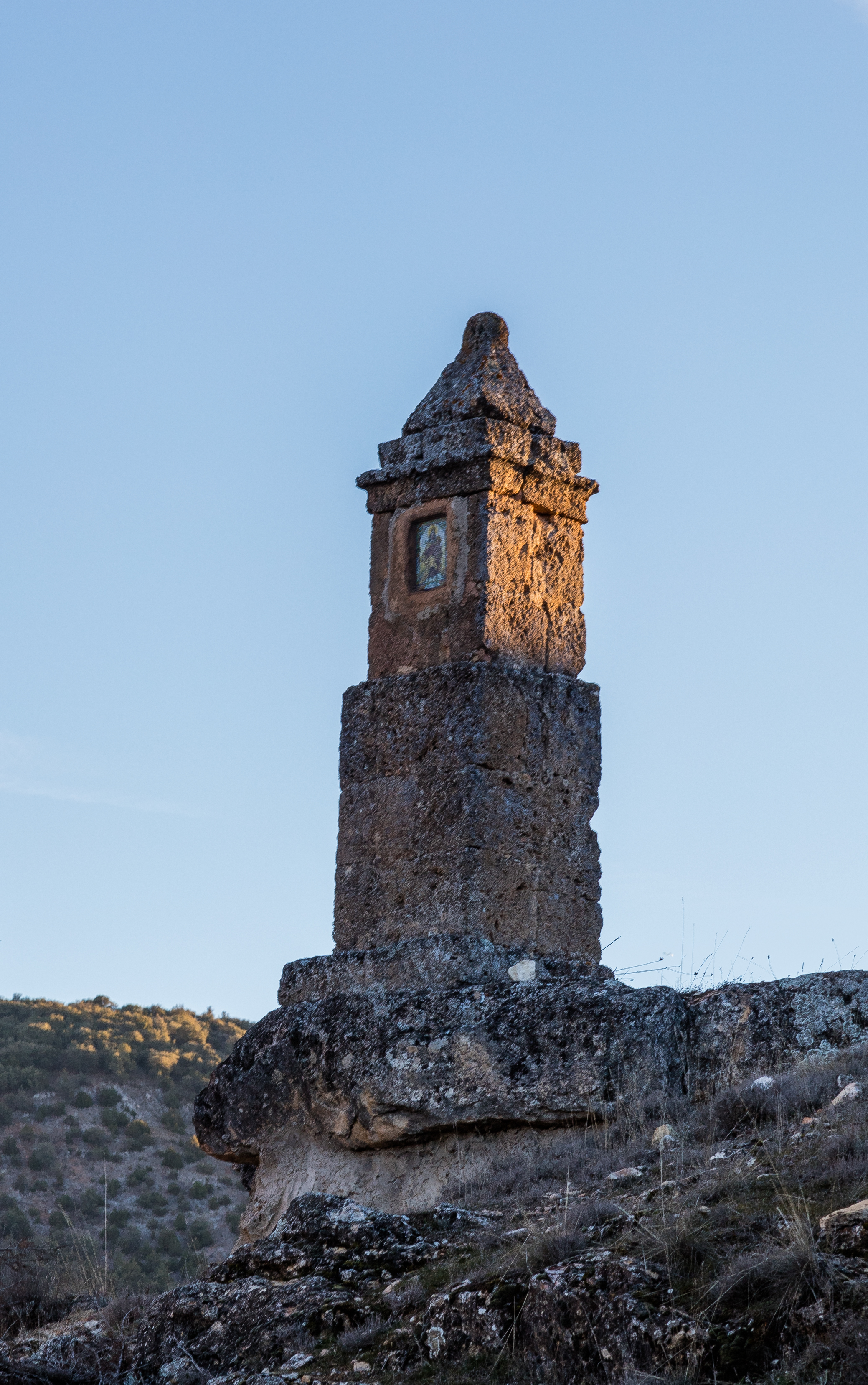 Wayside cross, Villel de Mesa, Guadalajara, Spain